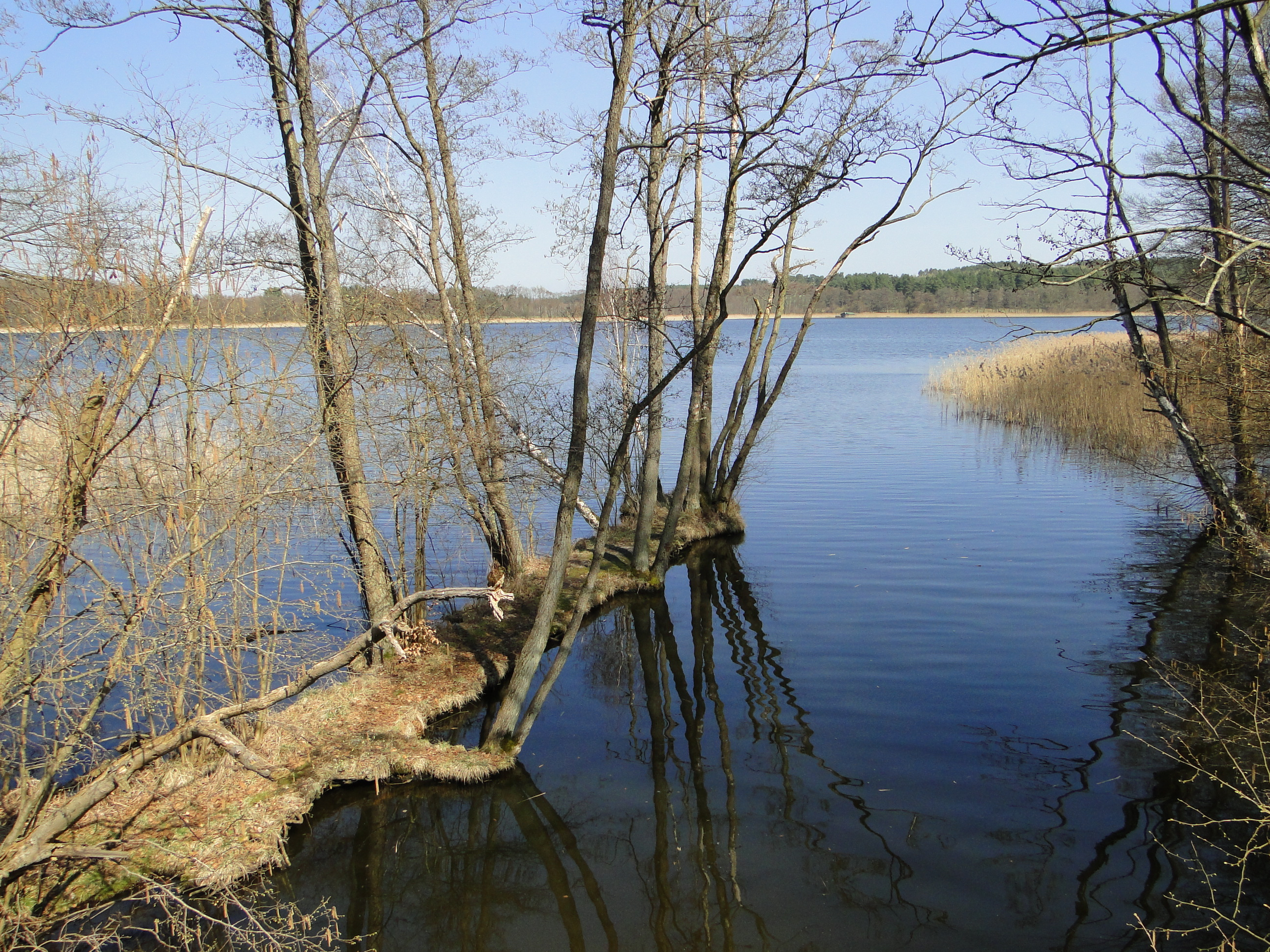 Lake Klenzsee in Seewalde, disctrict Mecklenburg-Strelitz, Mecklenburg-Vorpommern, Germany